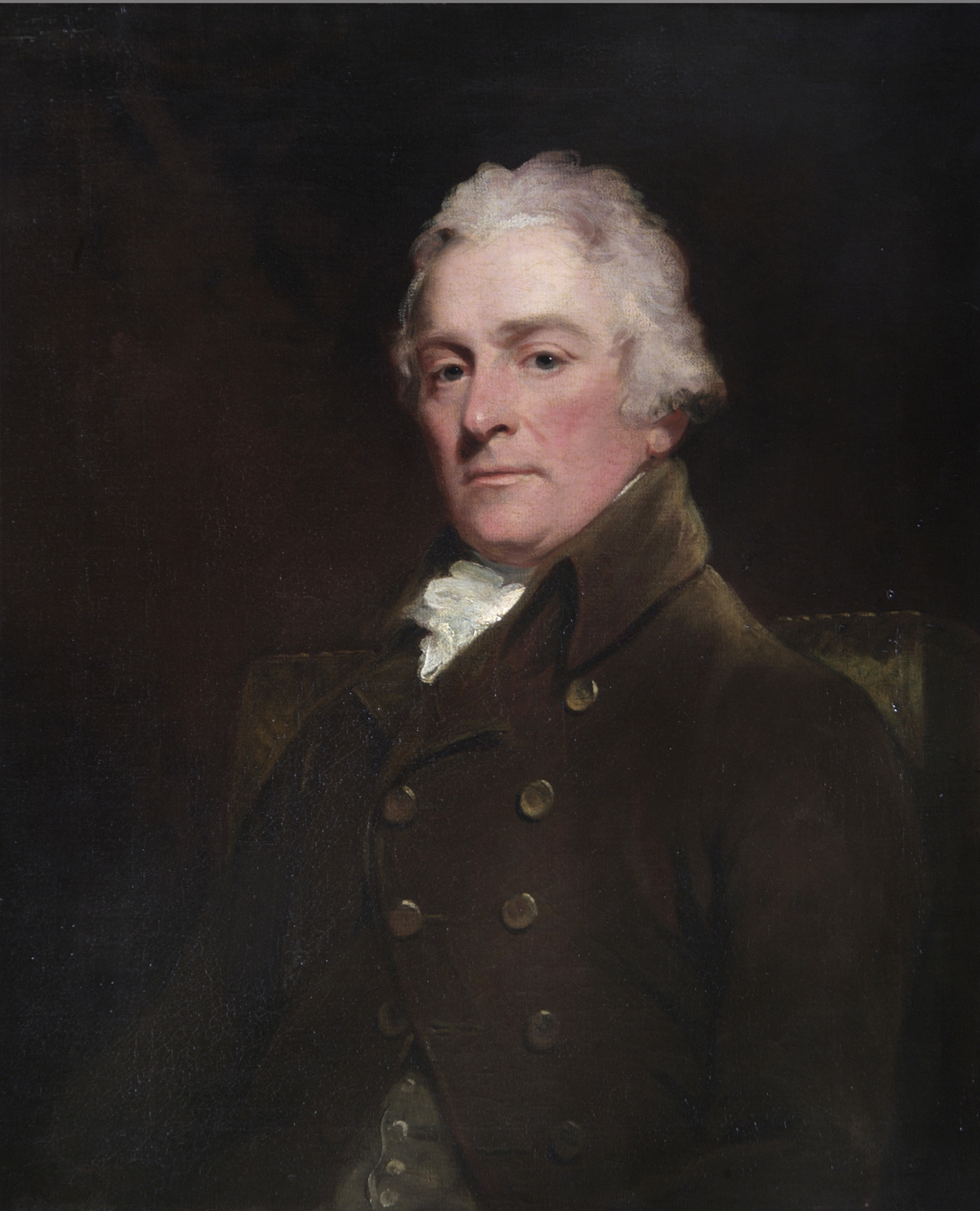 Portrait of David Pitcairn (1749–1809), Scottish physician.